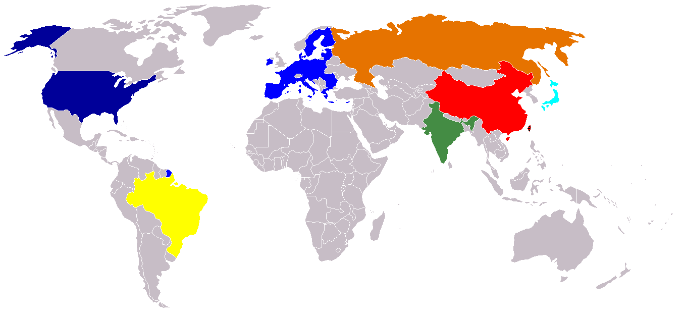 USA and world potential superpowers author User:Mathiasrex Maciej Szczepańczyk